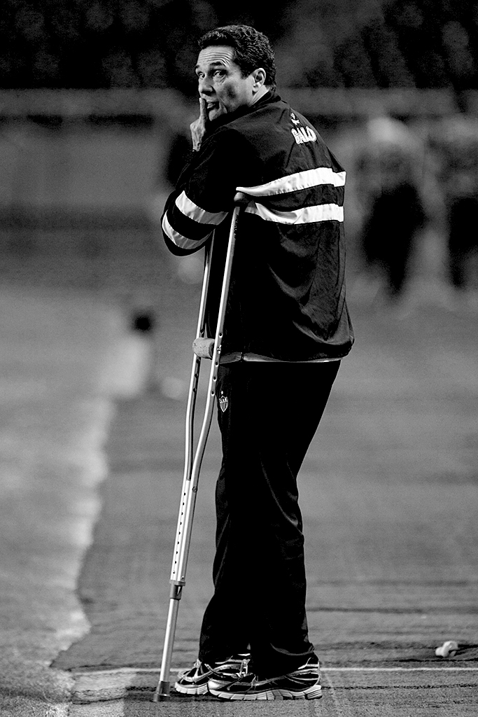 Vanderlei Luxemburgo managing Atlético Mineiro in 2010.